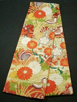 This is a supreme maru obi from Taisho period(1912-1925) or early Showa period(Showa:1926-1989). Butterfly, ume blossom and chrysanthemum motifs are woven boldly.